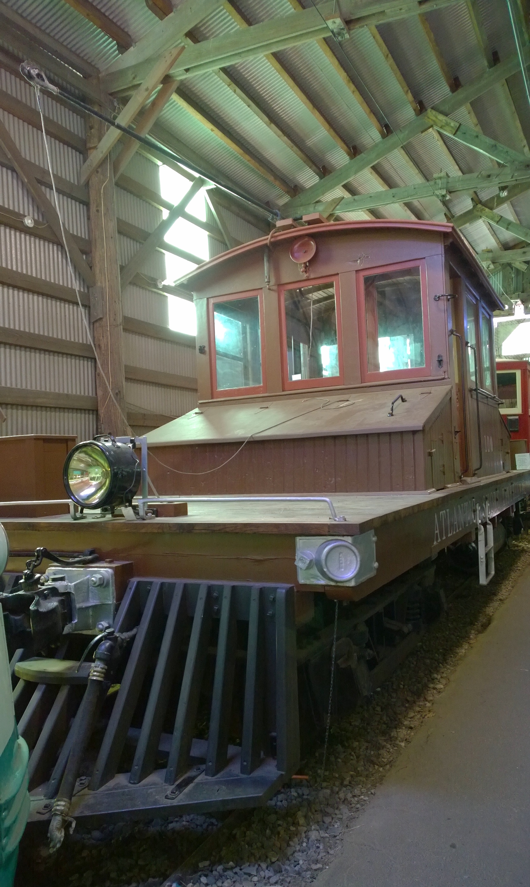 Atlantic Shore Line Railway electric locomotive 100 at the Seashore Trolley Museum. No. 100 was built in 1906 by the Laconia Car Company, on ALCO trucks, with GE motors. It is 34 feet long. In 1980, it was one of 10 rail vehicles (mostly trolley cars) at the Seashore museum that, collectively, were listed on the National Register of Historic Places, as "Maine Trolley Cars".